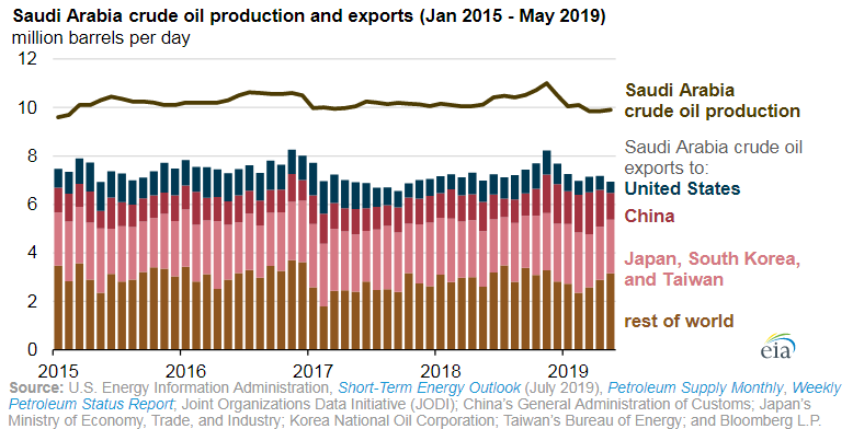 Saudi Arabia’s crude oil exports, especially to the United States, have fallen. However, some countries—in particular, China—have increased their imports of crude oil from Saudi Arabia. July 24, 2019